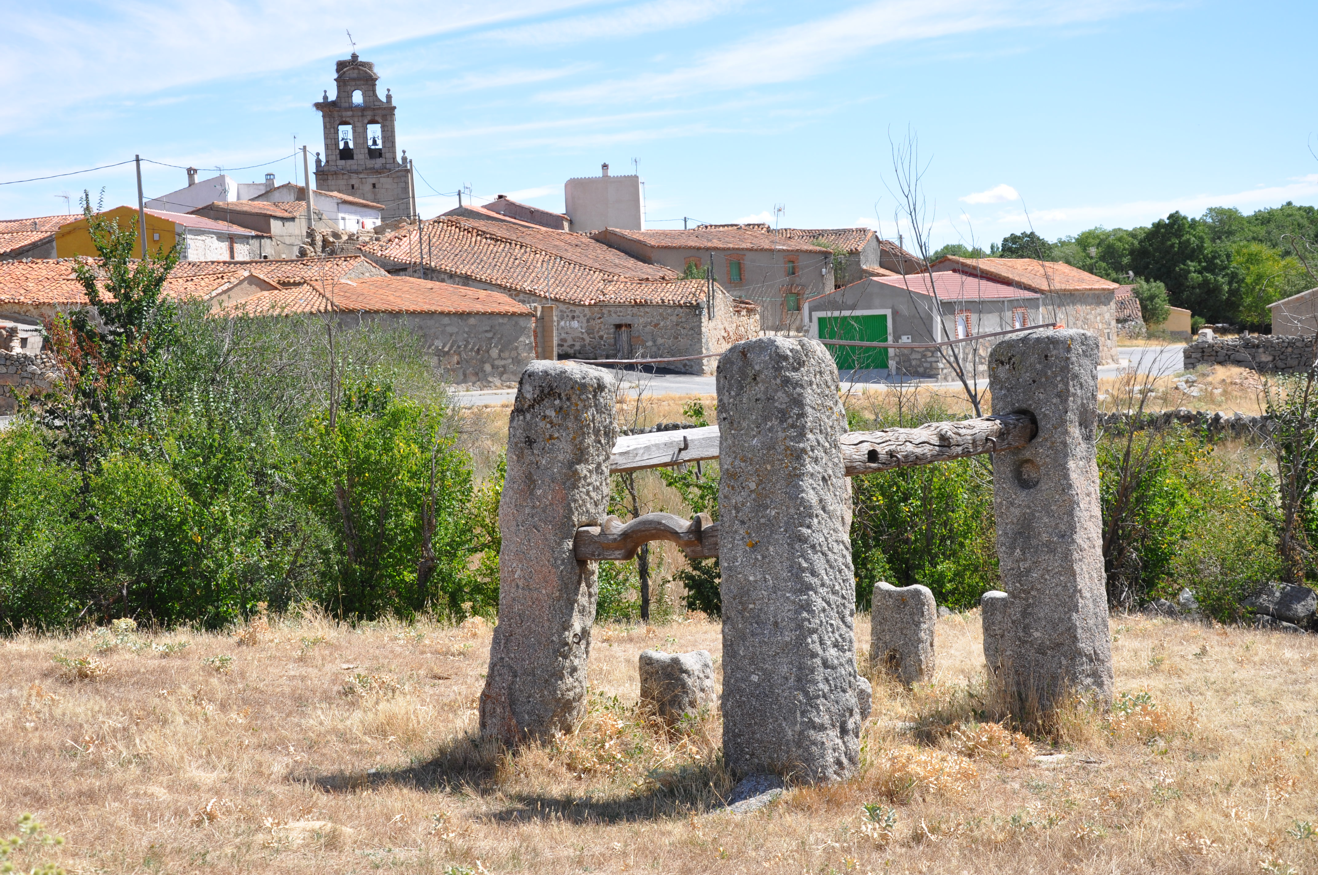 Stocks for animals